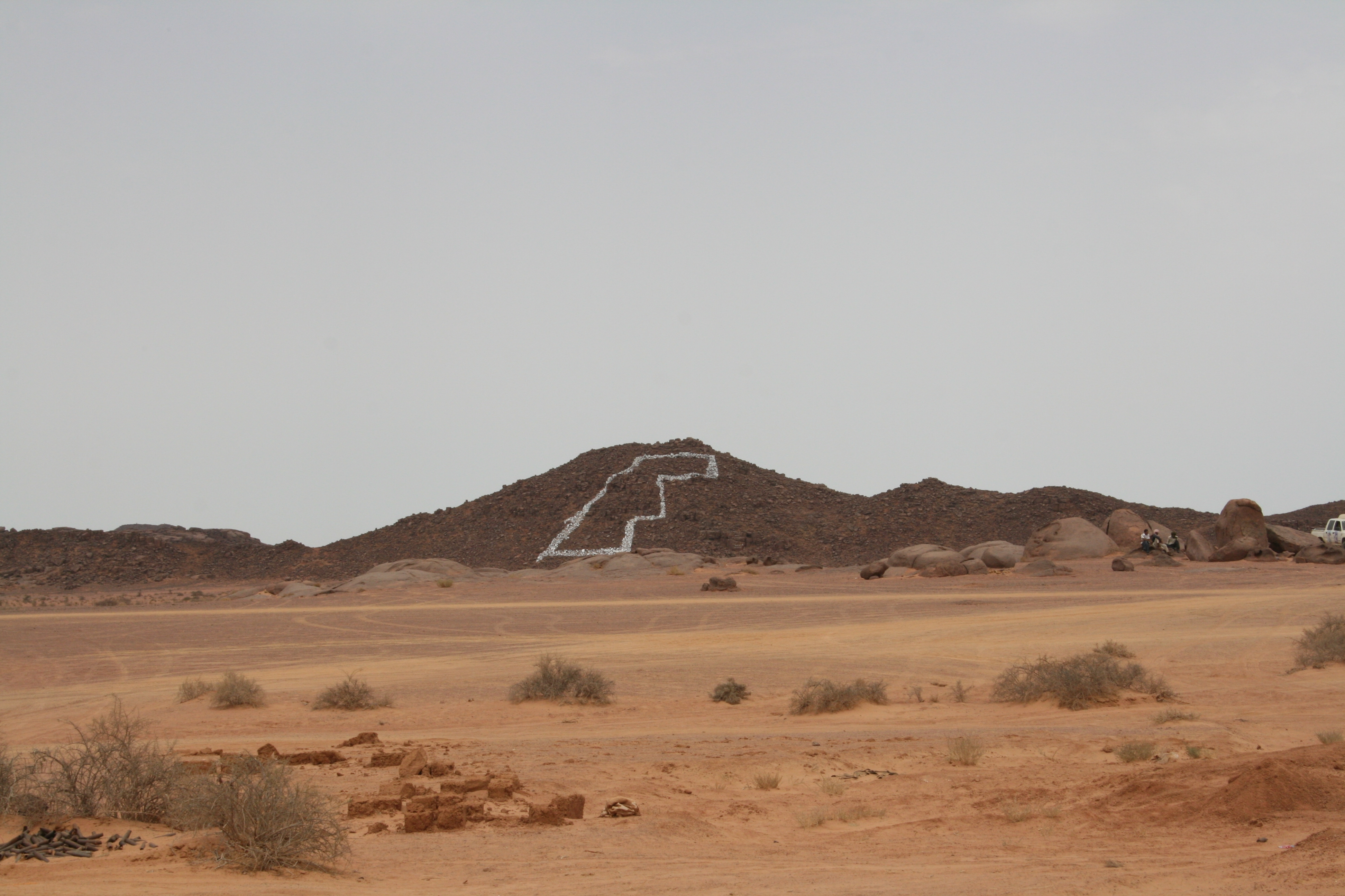 Small mountain near Tifariti in liberated Western Sahara. The map of Western Sahrara painted in white on the mountain. Taken in August 2009.